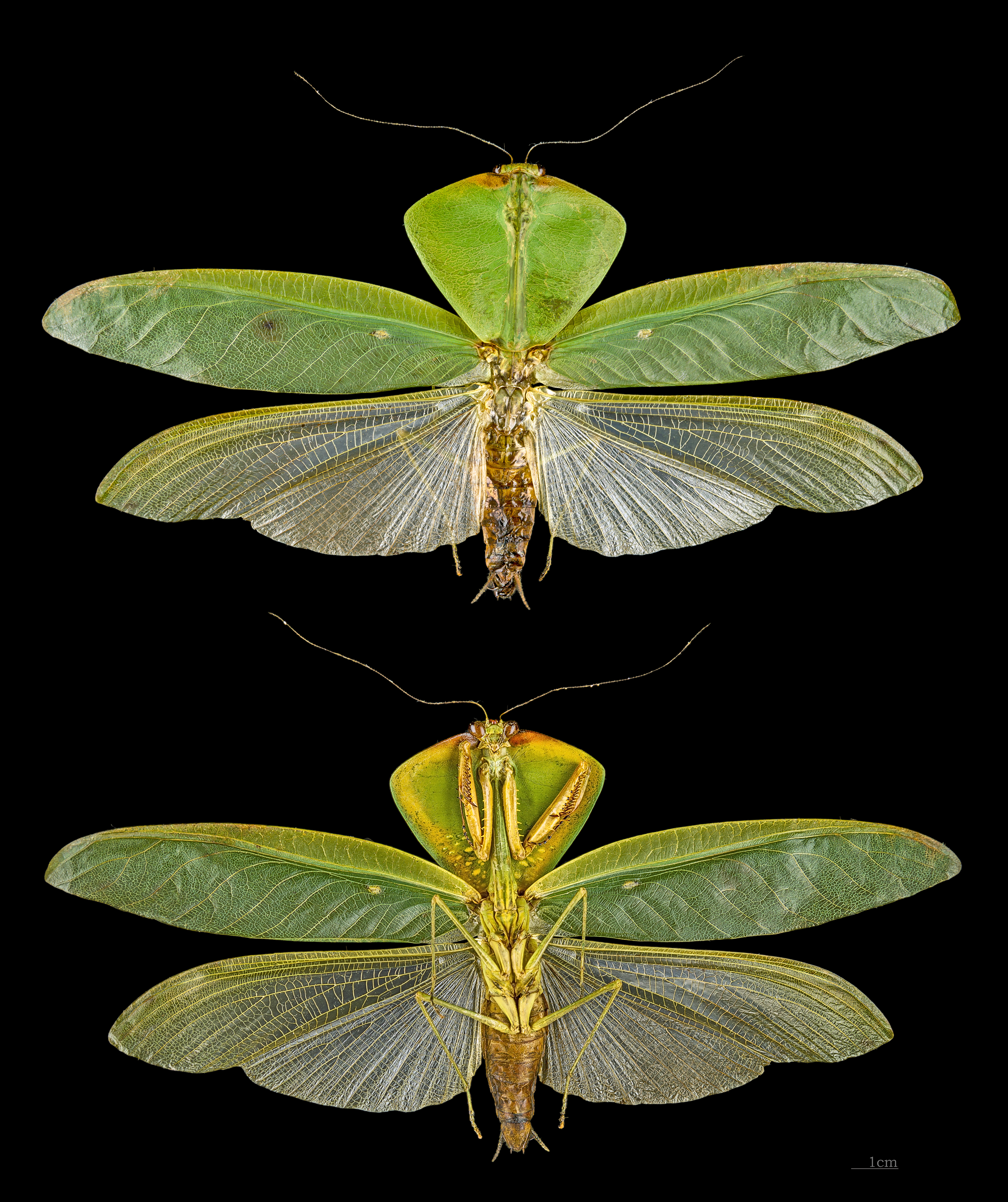 Choeradodis stalii - Two views of same specimen